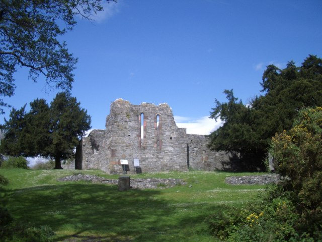 Innisfallen Abbey, Lough Leane. Taken from the jetty. Geographical data: Subject Location Irish: V 92 89E [1000m precision] WGS84: 52:2.8408N 9:34.0804W Photographer Location Irish: V 92 89External link View Direction WEST (about 270 degrees)